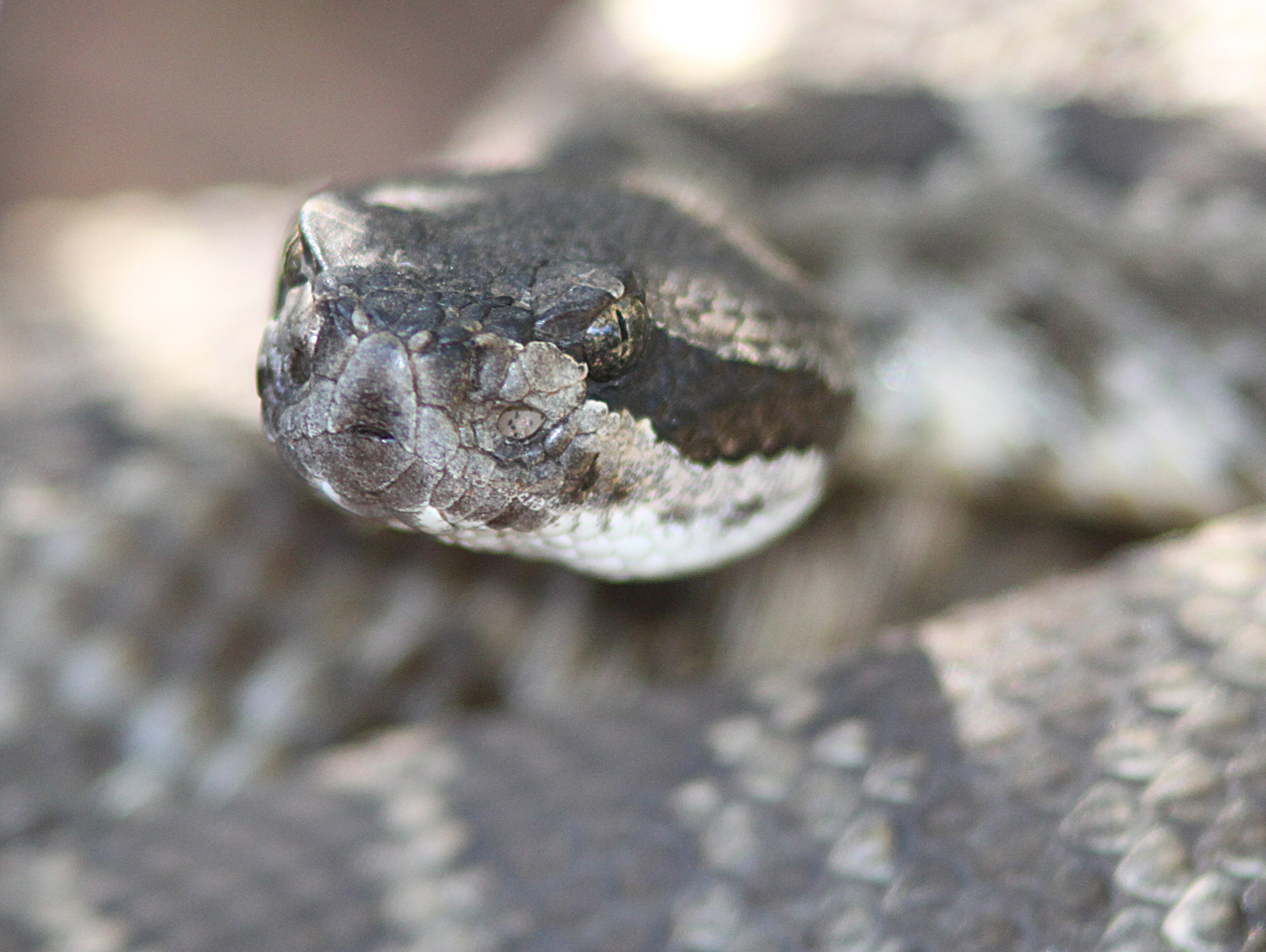 LIZARDS, SNAKES, FROGS, etc